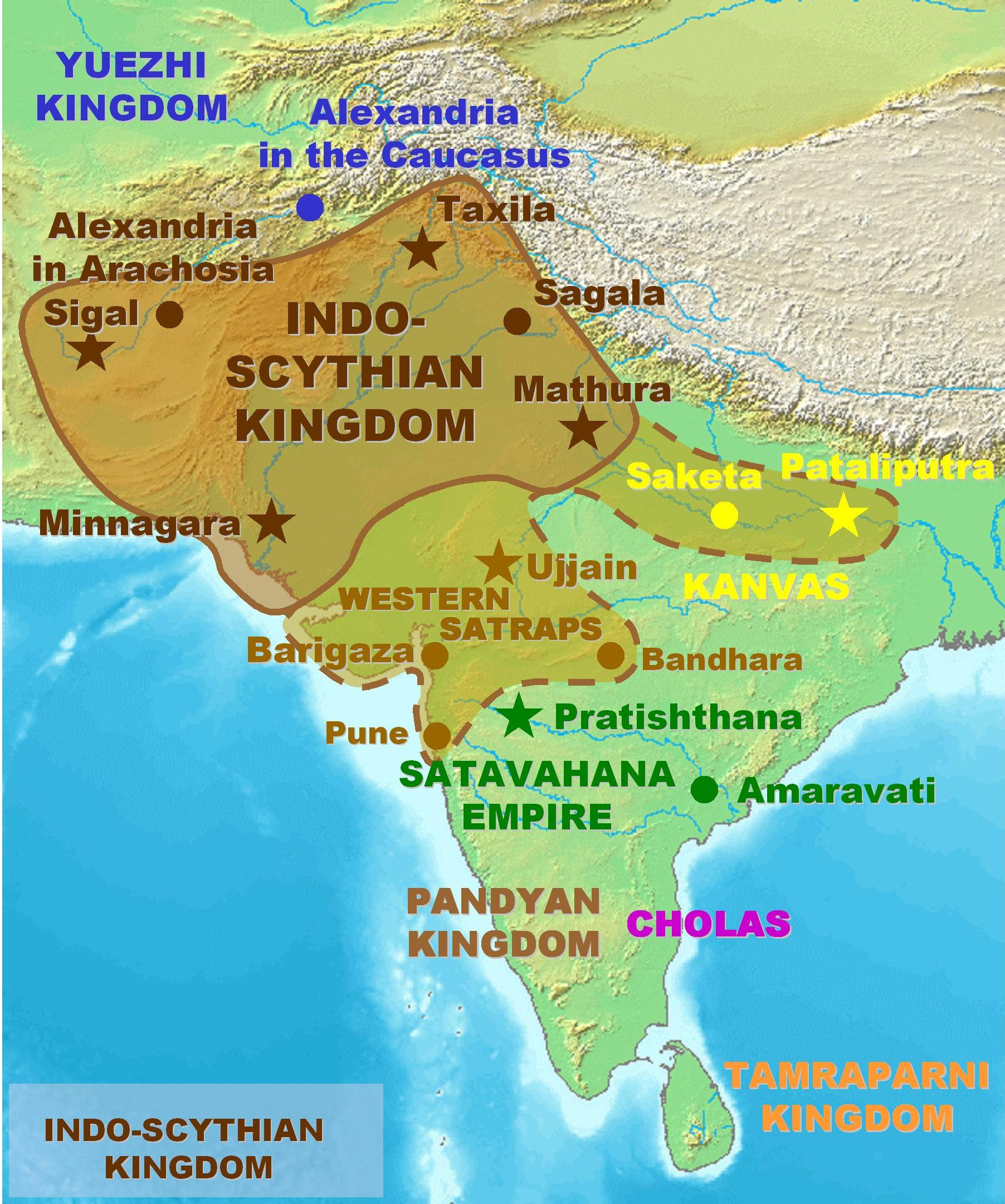 Map of the expansion of the Indo-Scythians in India. Personal creation.